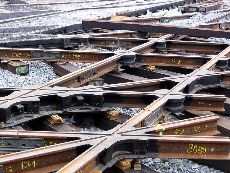 tram crossing with different frogs at Palacky square, Praha, Czech republic